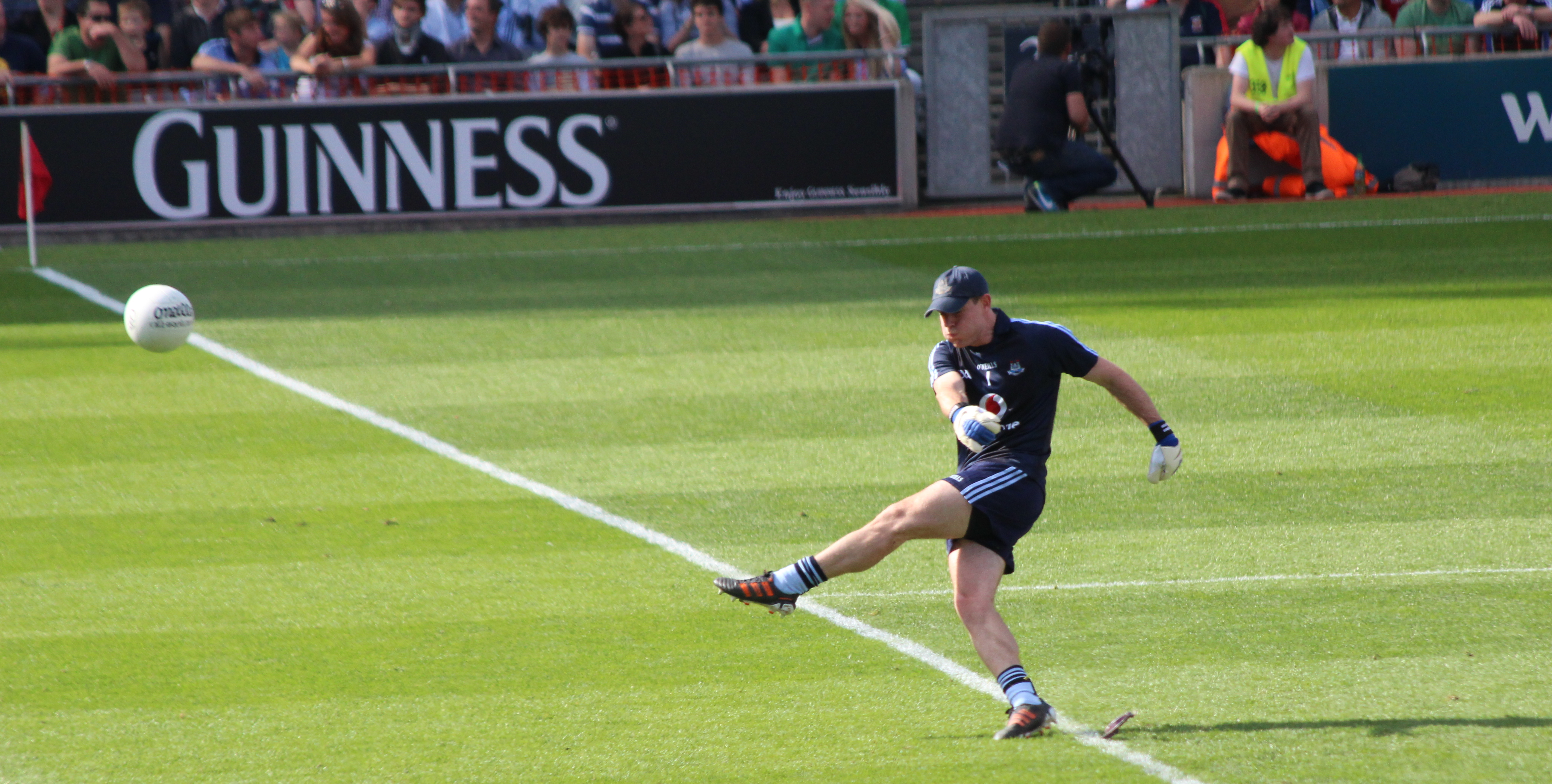 Kickout vs Mayo All Ireland Semi Final 2012